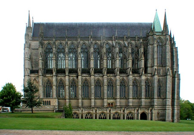 Photograph of Lancing College Chapel